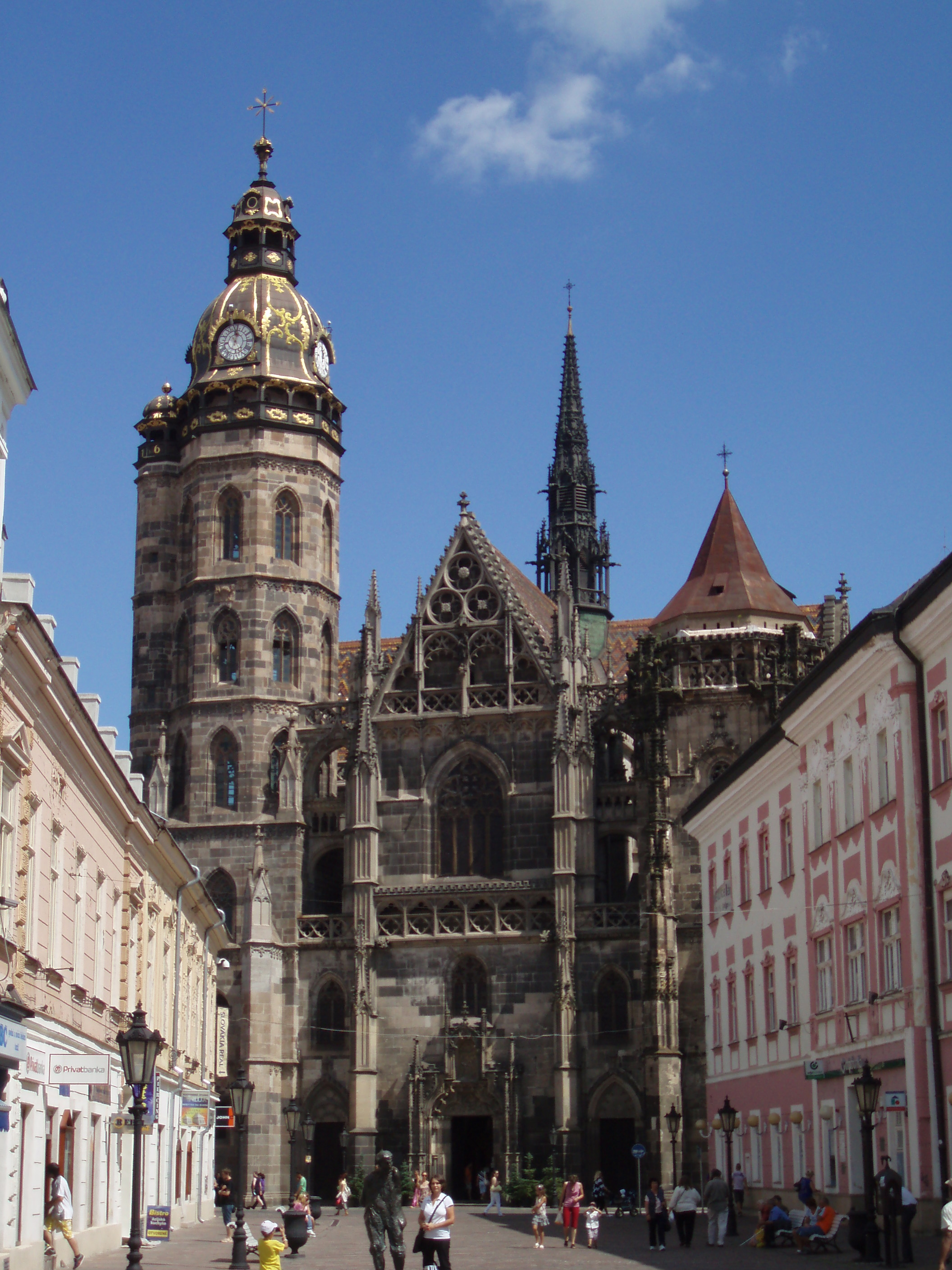 St.Elisabeth Košice